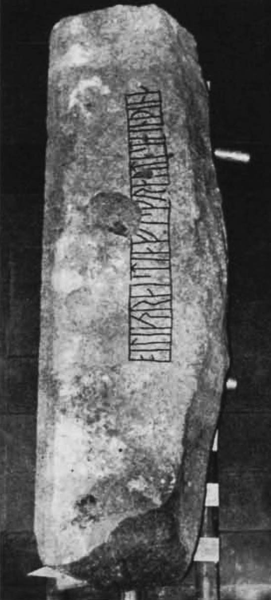 The Älleköpinge runestone (DR EM85;377), from Älleköpinge, Åhus, Sweden. Now in Kristianstads museum.